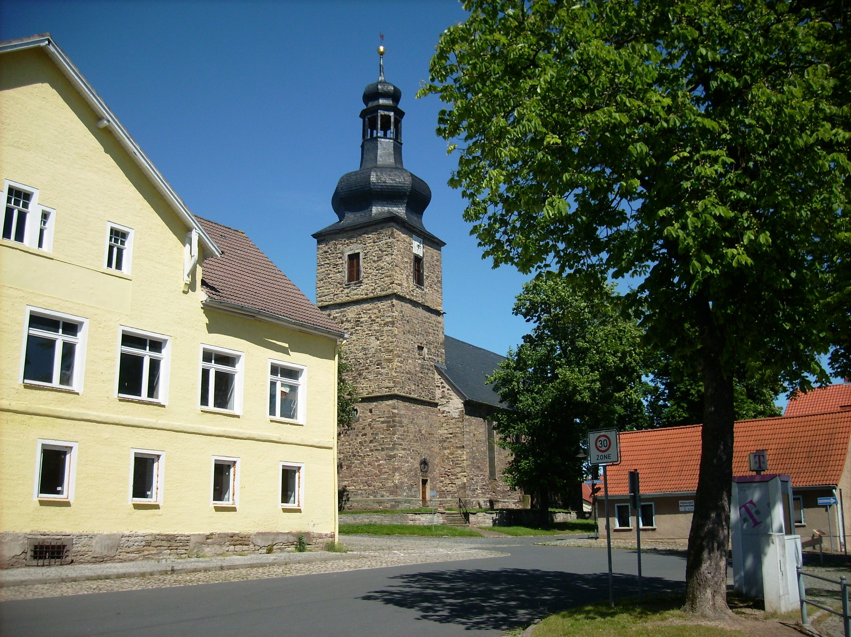 St. Andrew's Church in Rossleben (district of Kyffhäuserkreis, Thuringia)